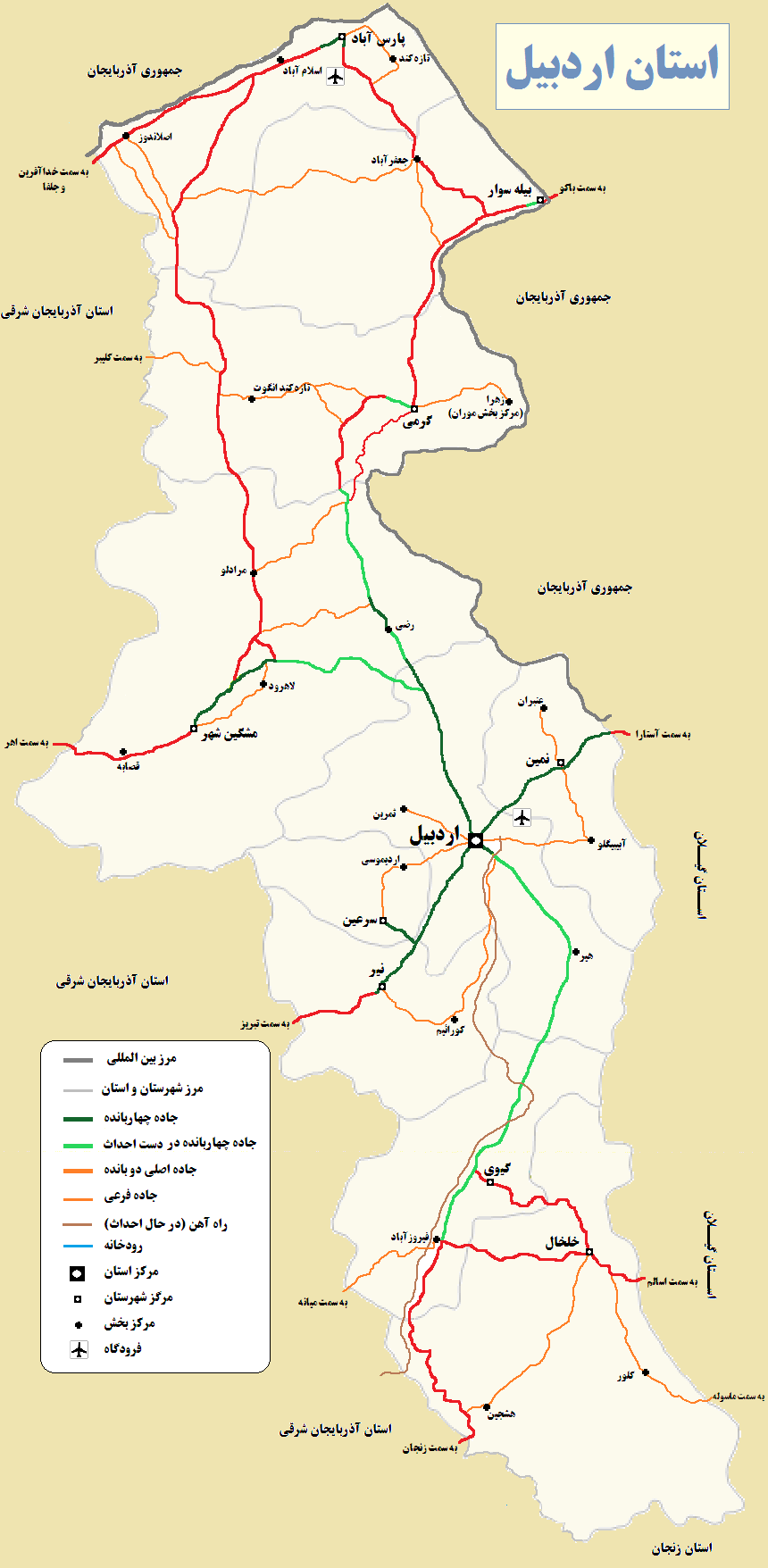 Transport map of ardabil province